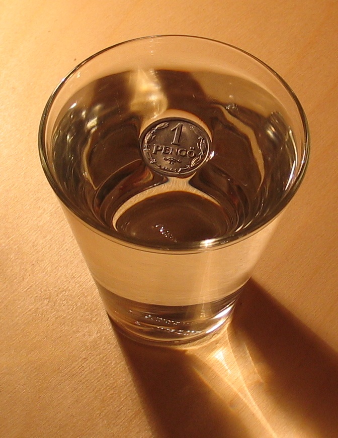 A 1 Hungarian pengő coin, which is made of aluminium, floating on the water thus demonstrating its surface tension.